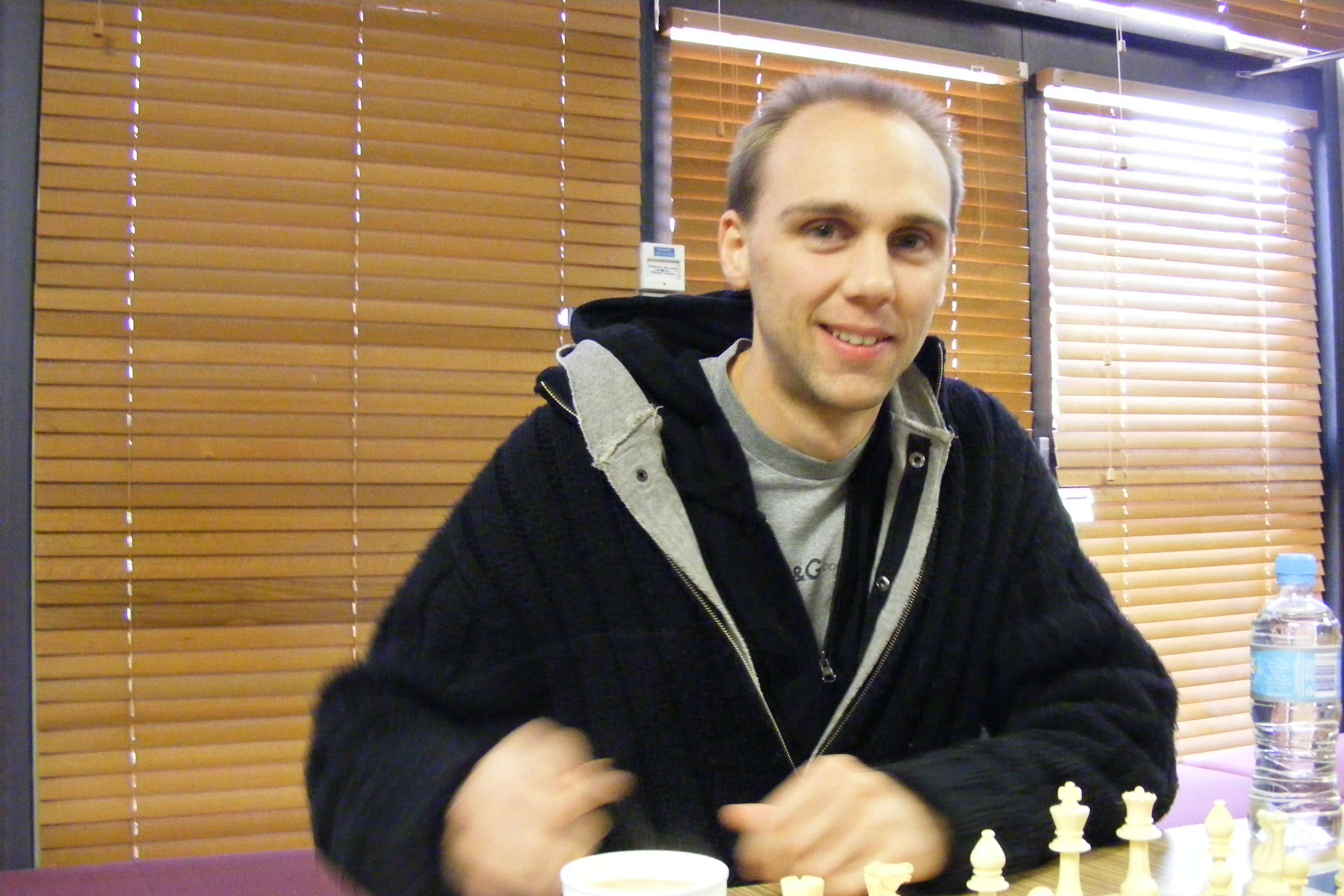 Grandmaster David Smerdon